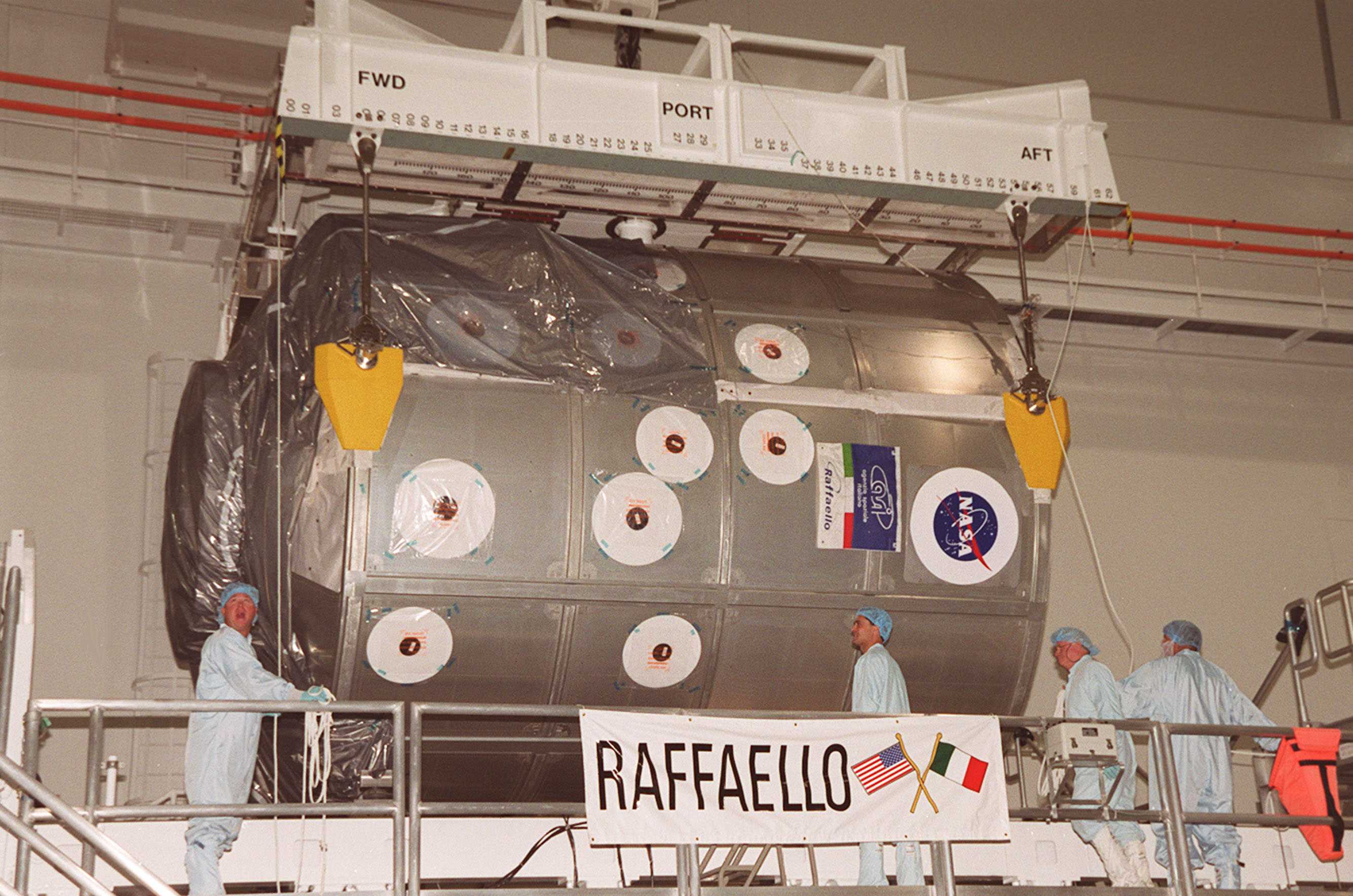 KENNEDY SPACE CENTER, Fla. - In the Space Station Processing Facility, an overhead crane is ready to lift the Multi-Purpose Logistics Module Raffaello in order to move it to the payload canister. Part of the payload on mission STS-100 to the International Space Station, Raffaello carries six system racks and two storage racks for the U.S. Lab. Launch of STS-100 is scheduled for April 19, 2001 at 2:41 p.m. EDT from Launch Pad 39A.